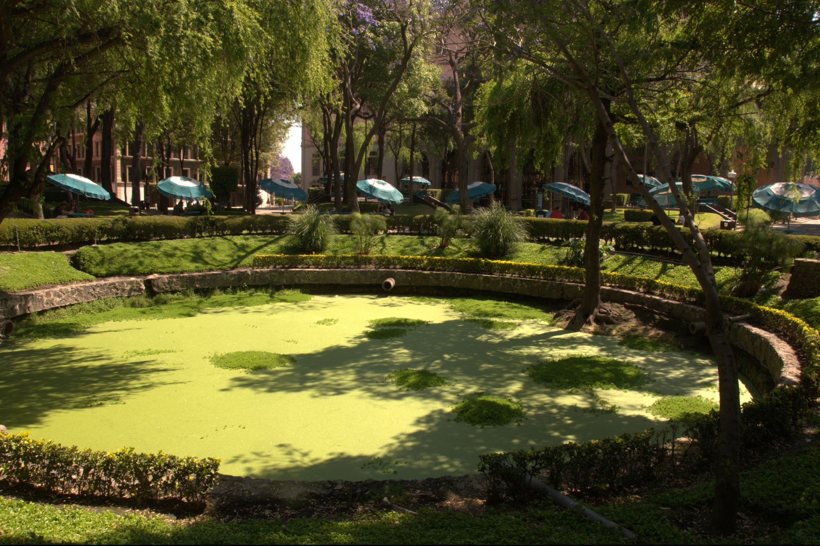 Cenote of water recycling at ITESM Campus Ciudad de México